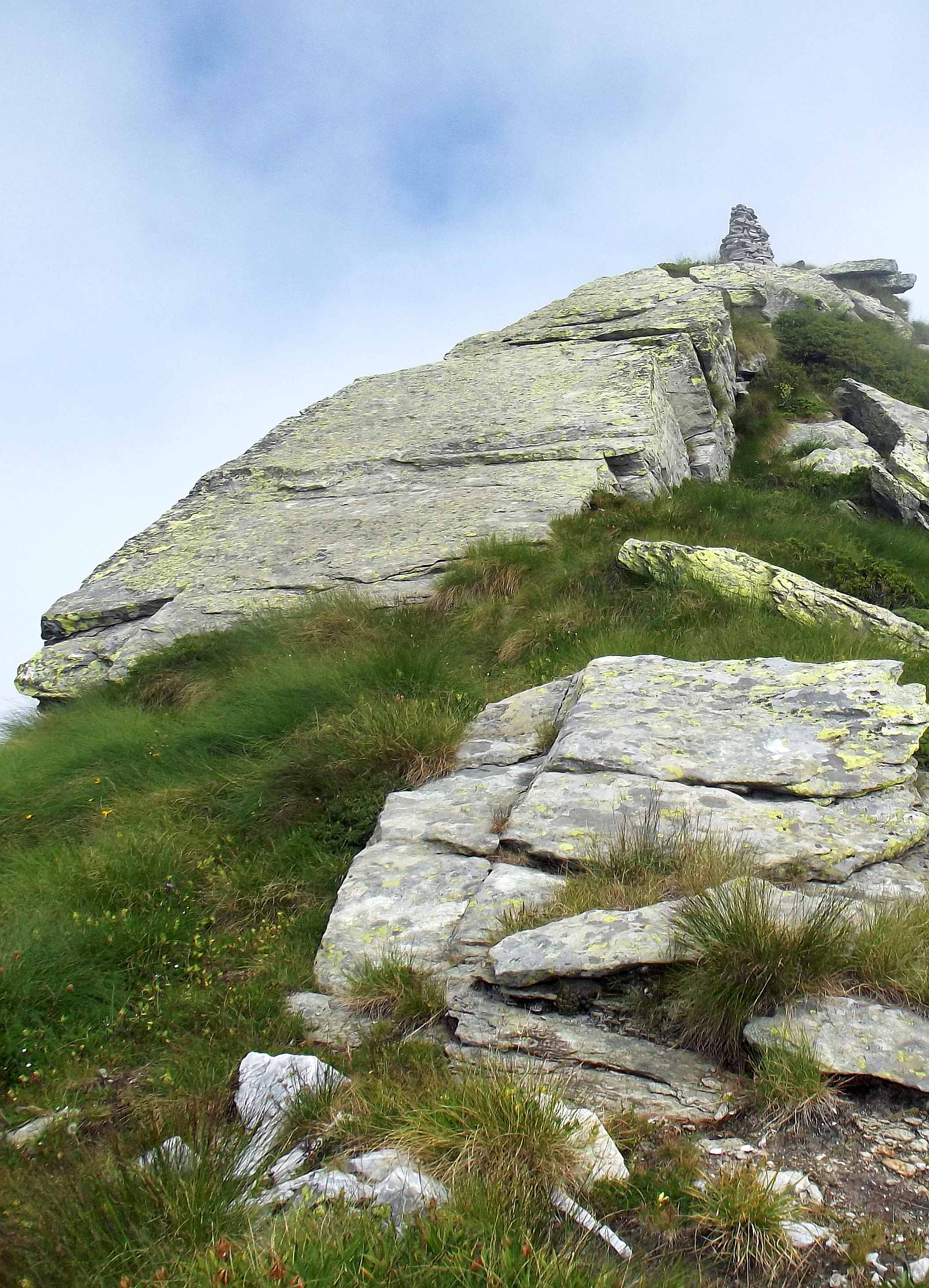 Punta della Vecchia (Alpi Biellesi, Italy): the cairn on the top